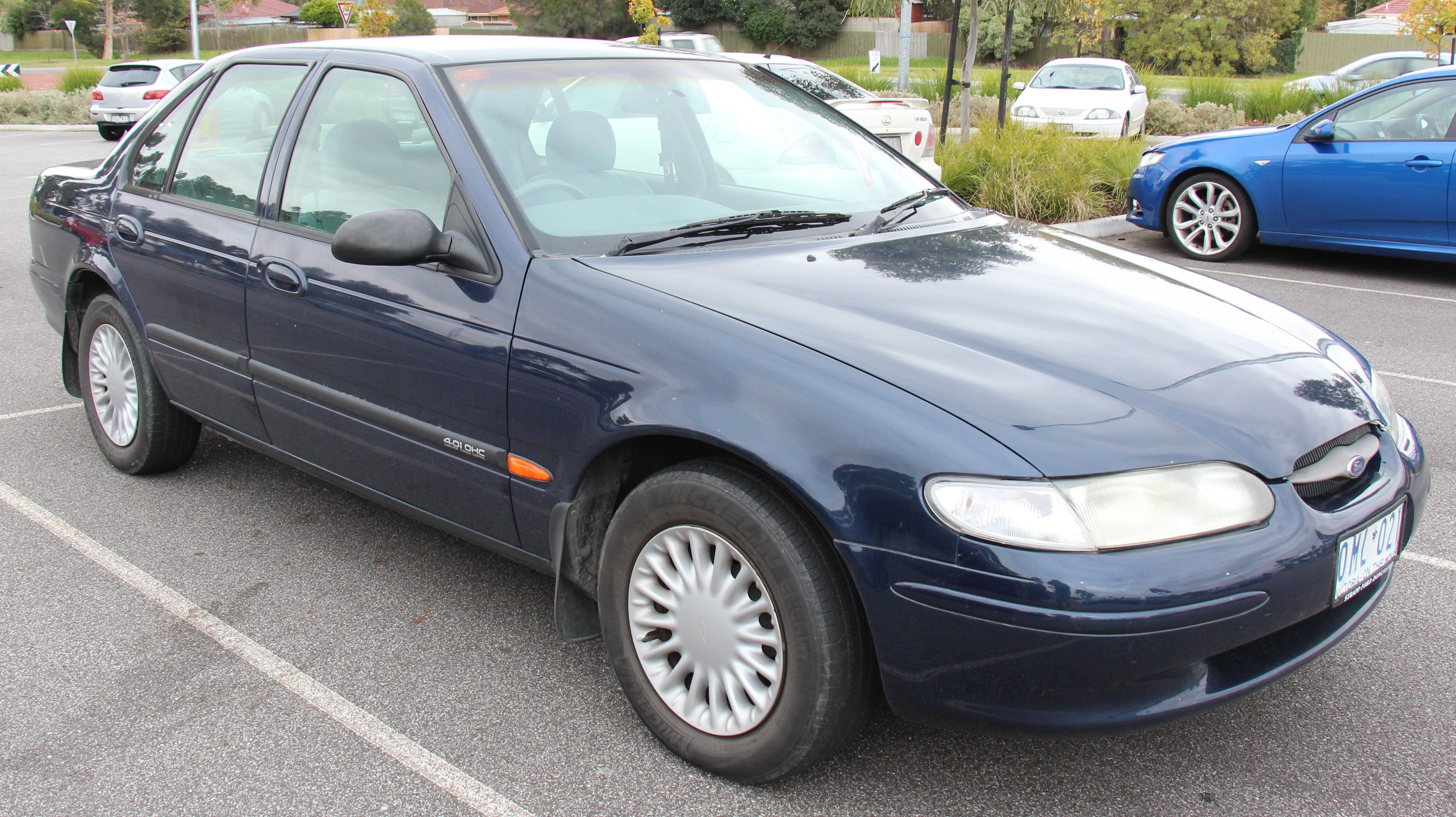 The EL Falcon was built from August 1996-Sept 1998. The EL was just a facelift for the EF, the GLi and Futura got their grilles back, an oval shape, also new headlights, bonnet and bumper. Fairmont models featured new chrome grilles and the quad-headlights on the XR models were slightly changed. Suspension was improved across the range. Limited Edition models were available, the Sapphire, the Classic and the Falcon S. Also the 30th anniversary EL GT was available, built by Tickford Vehicle Engineering, with 200kw SVO GT40 5,0 V8. It got quite an outlandish look with a Darth Vader looking grille and large rear wing. Engines; 4.0 6 or 5.0 V8 Sedan; GLi, Futura, Fairmont, Fairmont Ghia, XR6 or XR8 Wagon; GLi, Futura or Fairmont. 1997 S pack option; air, alloys, pinstripe 1998 Sapphire; air, alloys, pinstripe, 6 stacker